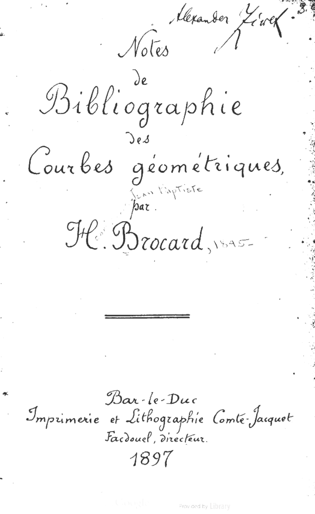 This is a scan of a copy of Henri Brocard's original manuscript title page, uploaded by User:Nousernamesleft 22:06, 20 January 2008 (UTC).